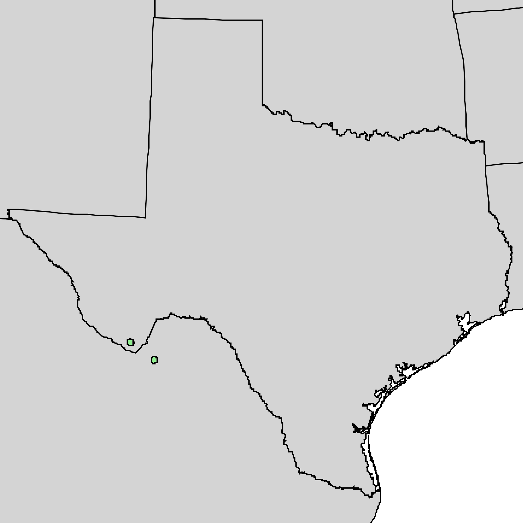 Range map of Quercus graciliformis